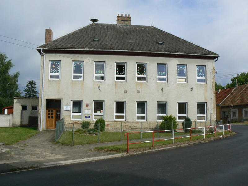 Municipal office in Mouchnice, Hodonín District, Czech Republic